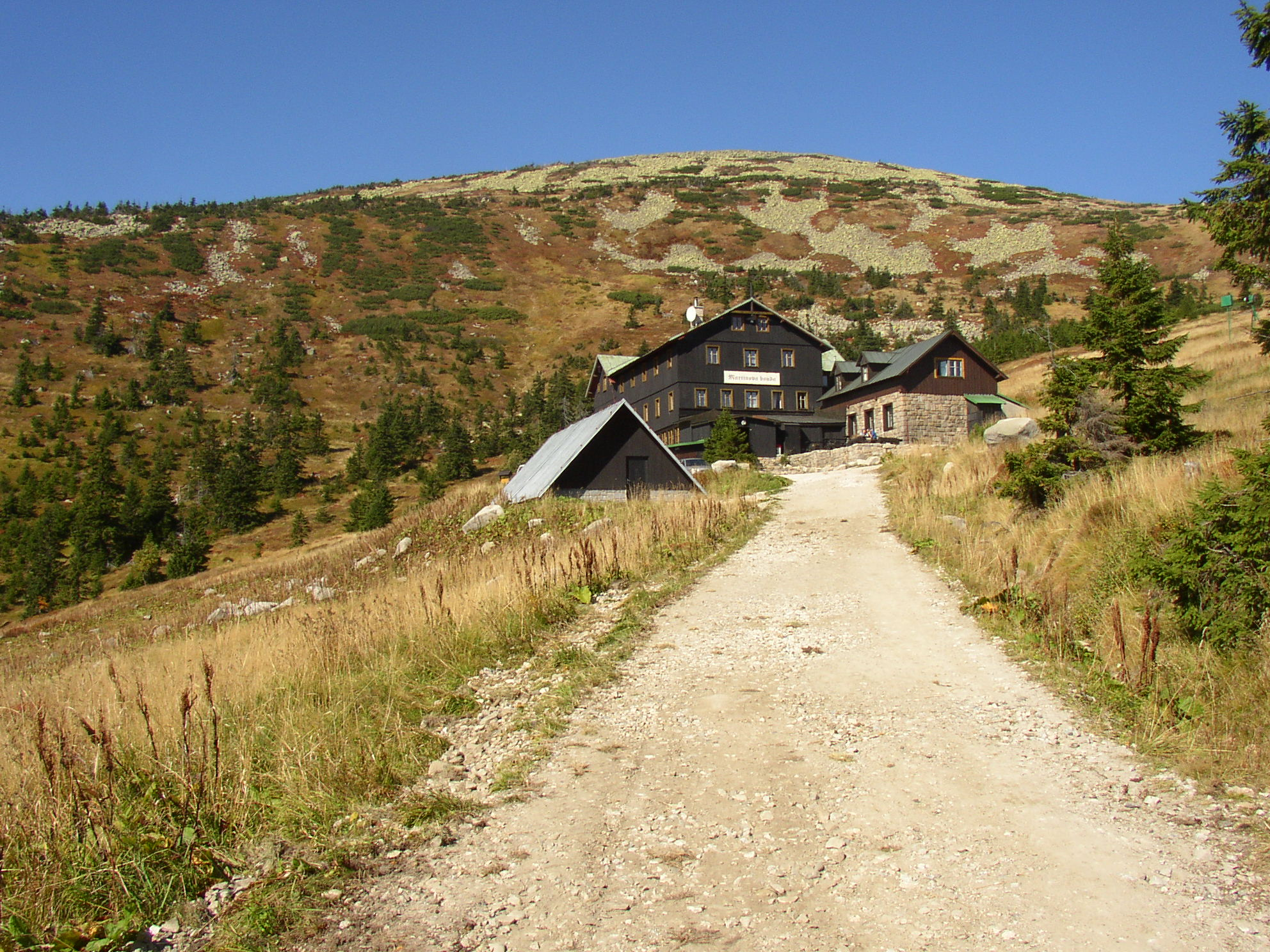 Martin's Chalet in Karkonosze with Wielki Szyszak / Vysoké Kolo Mt. (1,509 m a. s. l.) as seen in late summer from southeast, during an ascent from Špindlerův Mlýn.